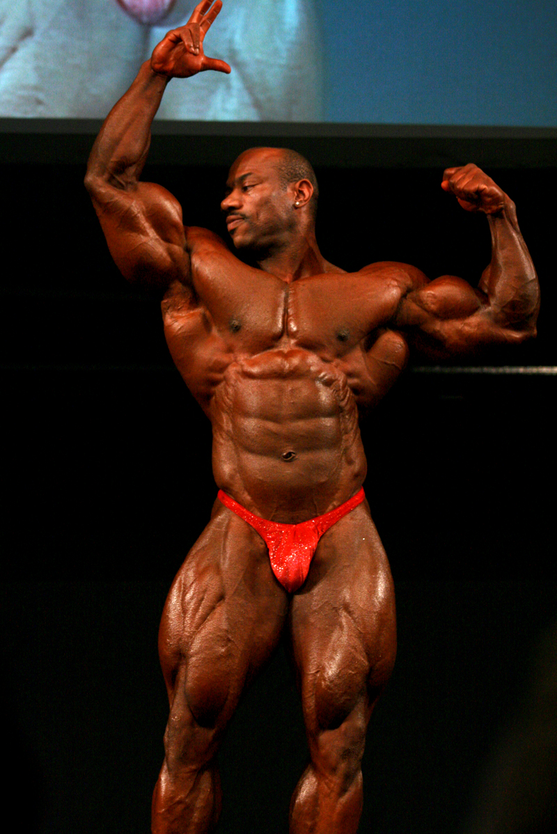 JAHN SCHILLER " DJ SENFGURKE " He is the best bodybuilder in the world. His biceps has the circumference of 64 cm.